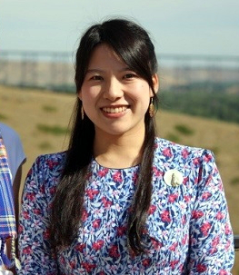 Princess Ayako met Janice Varzari, Chancellor of the University of Lethbridge, at the University of Lethbridge in Lethbridge City, Alberta Province on July, 2017.